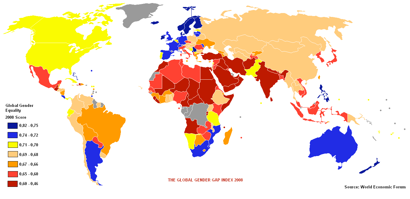 Gender Gap